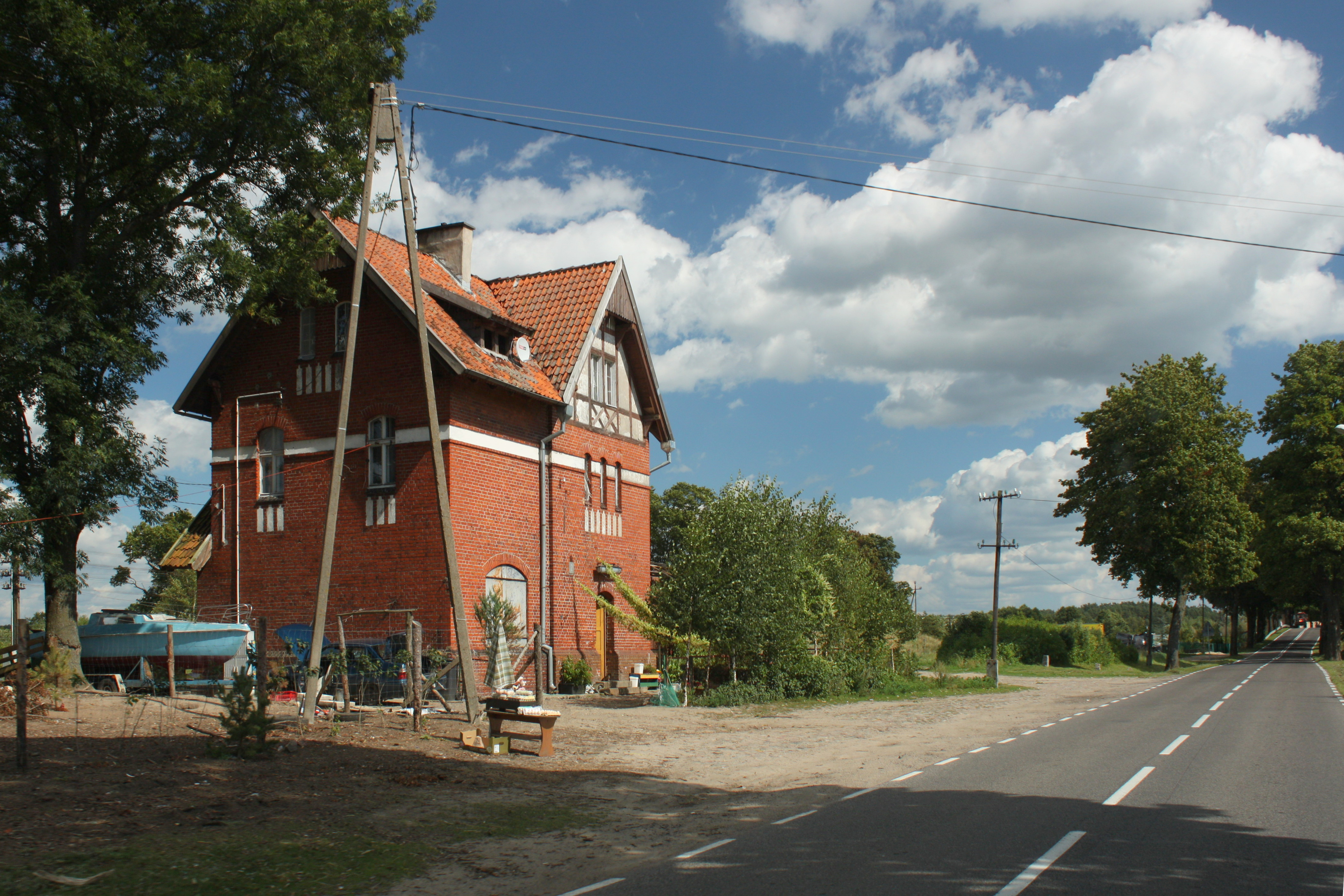 Building in Probark.